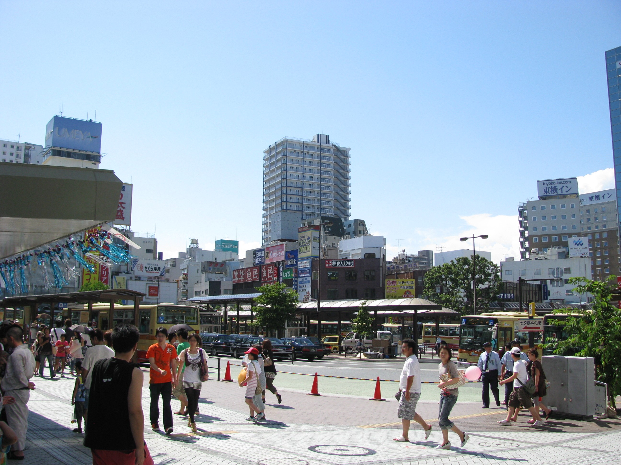 This location is front of Hiratsuka Station in Hiratsuka, Kanagawa Prefecture, Japan.